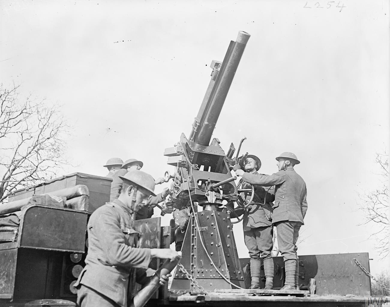 IWM caption : "A 13 pounder (13pdr), 9 Hundredweight (9cwt) anti-aircraft gun on a Mark IV Motor Lorry Mounting seen in action at St. Vaast, 13 March, 1918. Note man on right wearing headphones by which the range is received". NOTE : on Peerless lorry, in action at Cambrai, according to I.V. Hogg & L.F. Thurston, "British Artillery weapons & ammunition 1914-1918", Ian Allan, 1972, where the image appears.